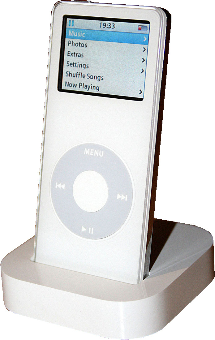 White IPod nano